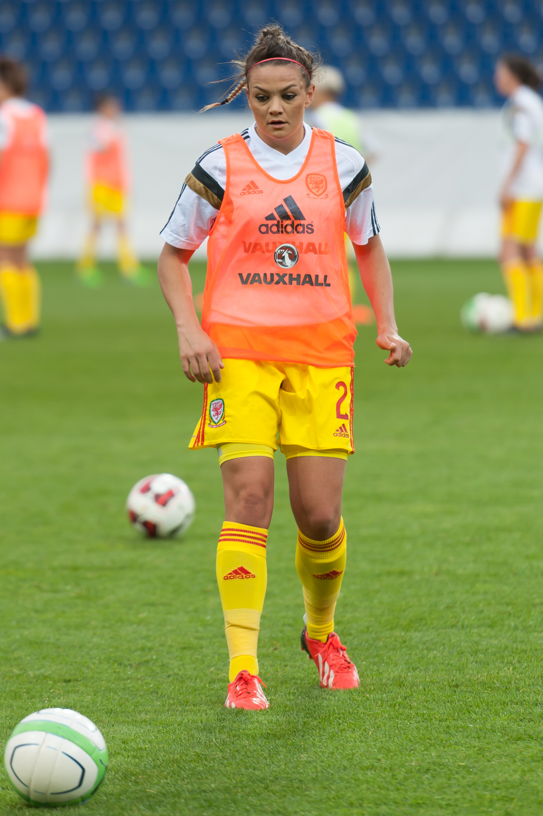 Women's Euro Qualification Austria vs. Wales, 2015-09-22, St. Pölten, Lower Austria